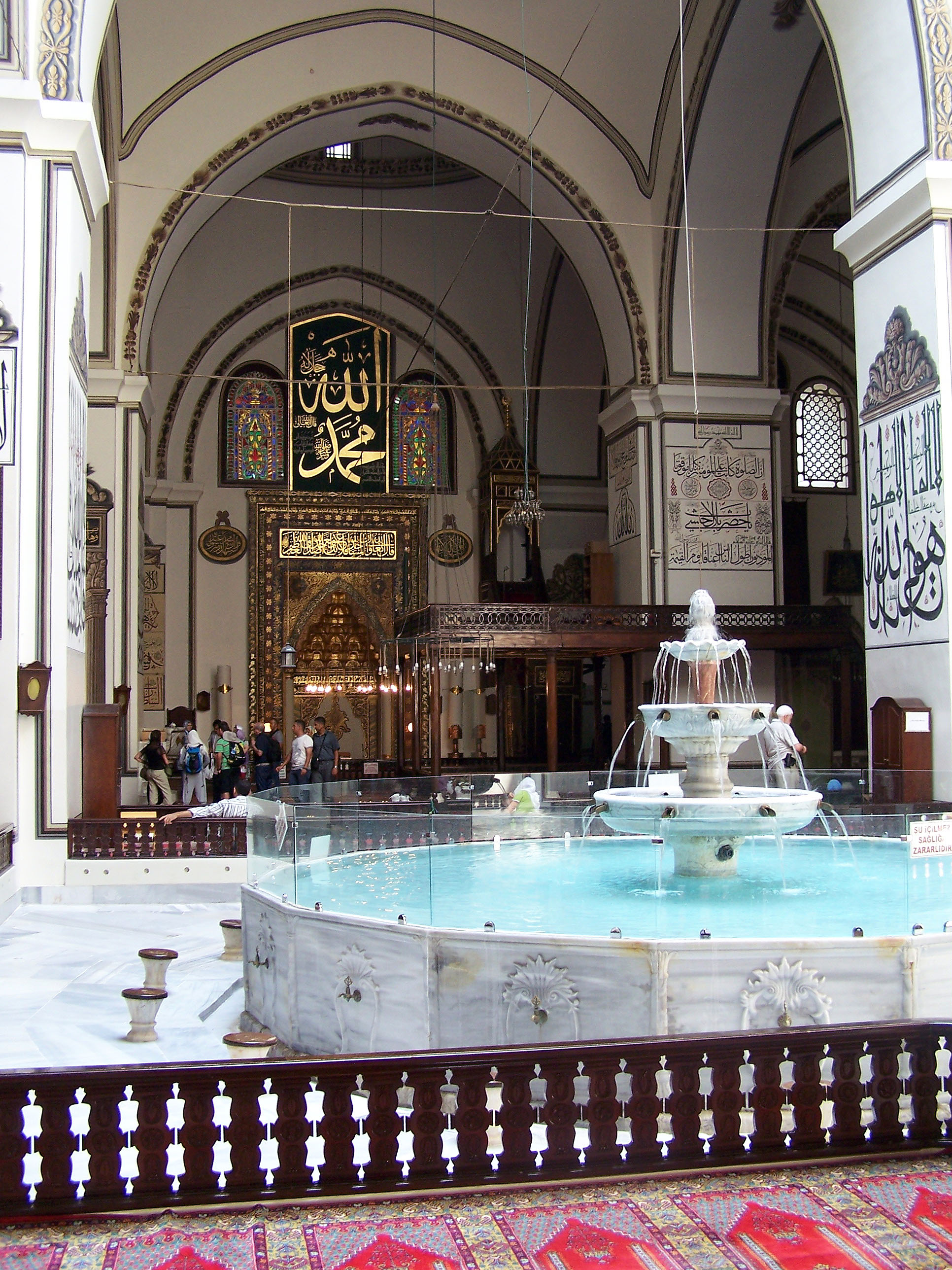 Interior of Ulu Camii in Bursa, Turkey